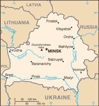 Belarus map from CIA World Factbook, converted from original GIF format